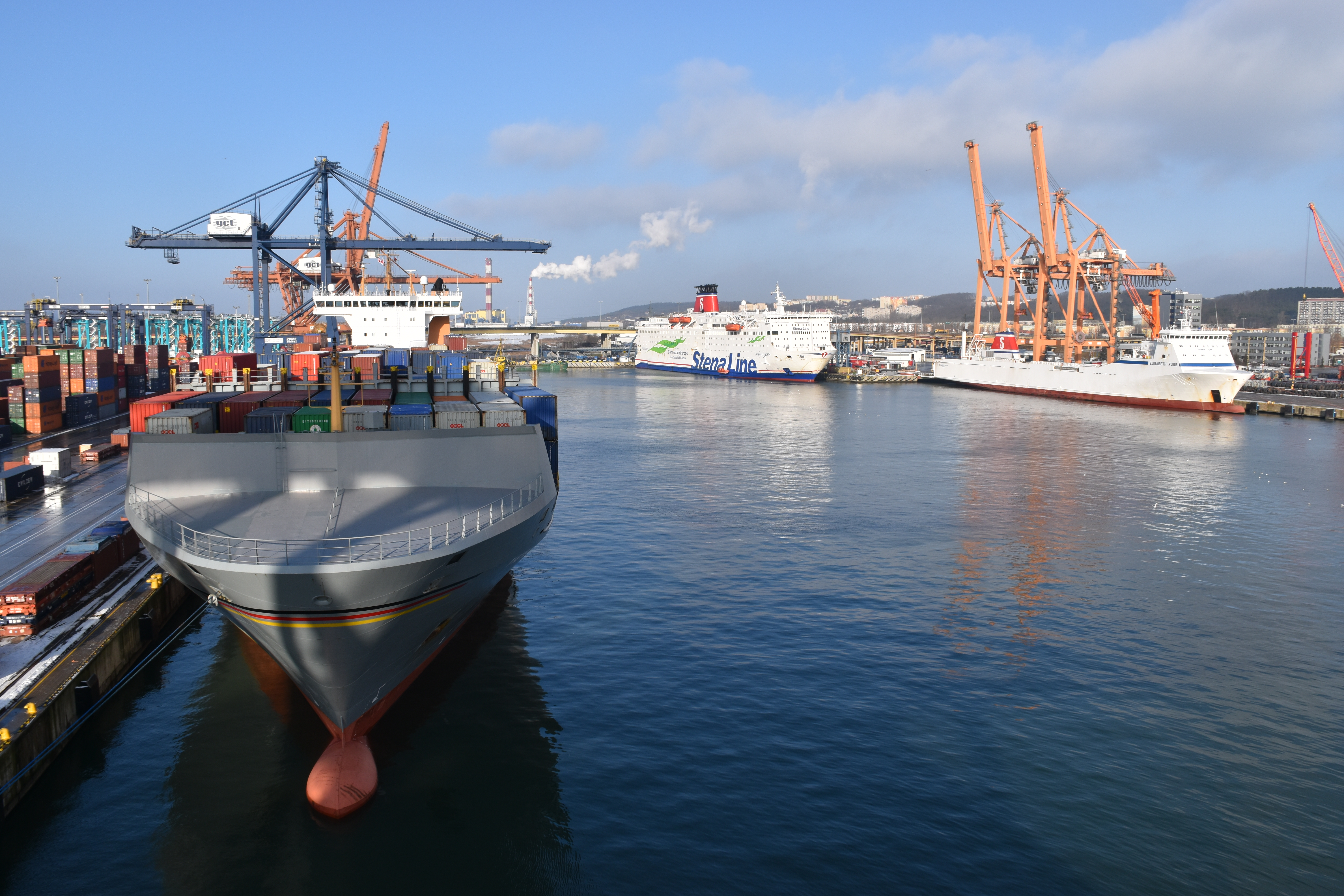 Overview of the port of Gdynia, 12 February 2018.